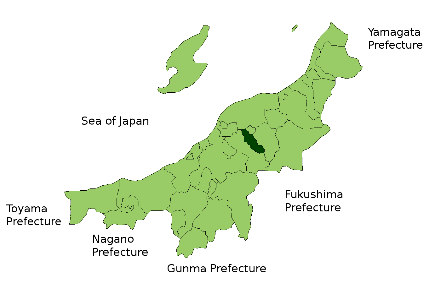 Location Map of Kamo in Niigata Prefecture, Japan